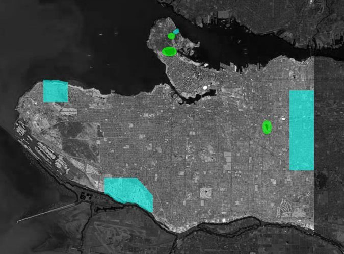 Landsat image showing bodies of water listed in Bodies of water in Vancouver.